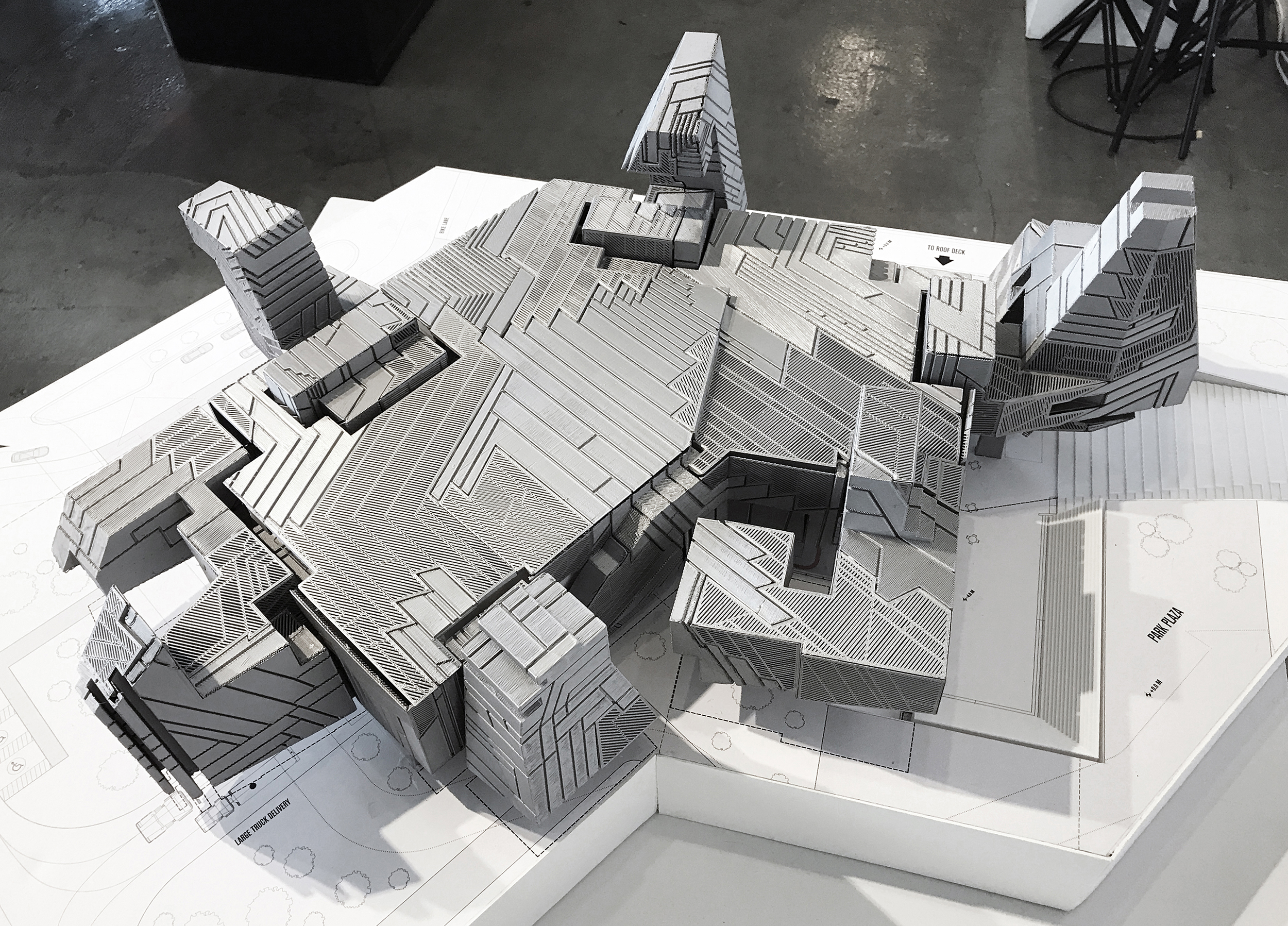 National Museum of World Writing